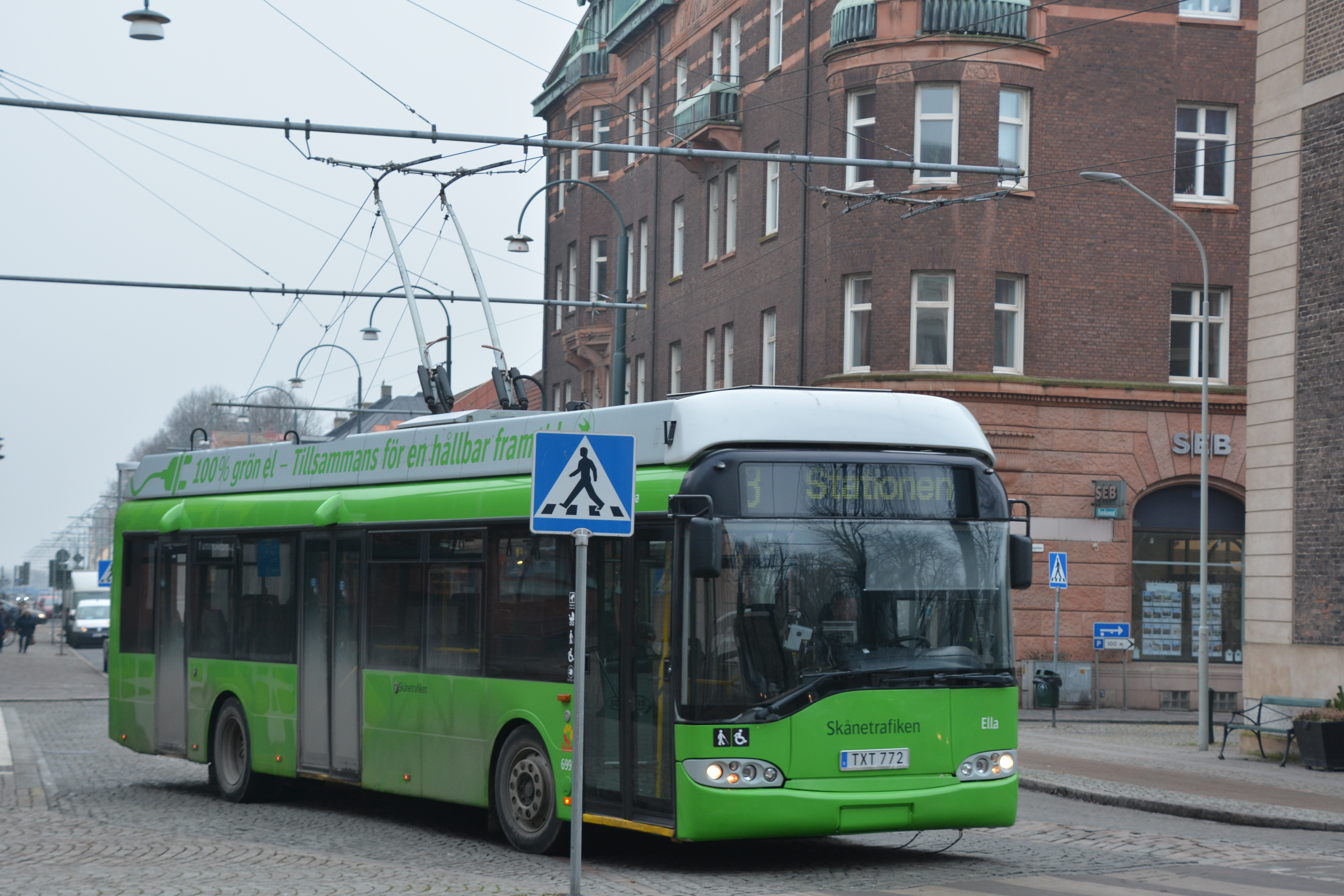 Trådbuss vid Landskrona rådhus